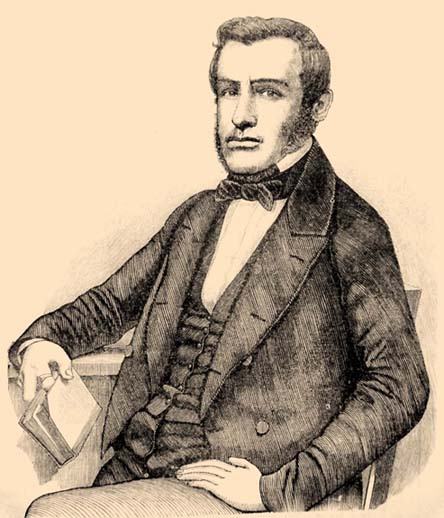 Bálint Révész